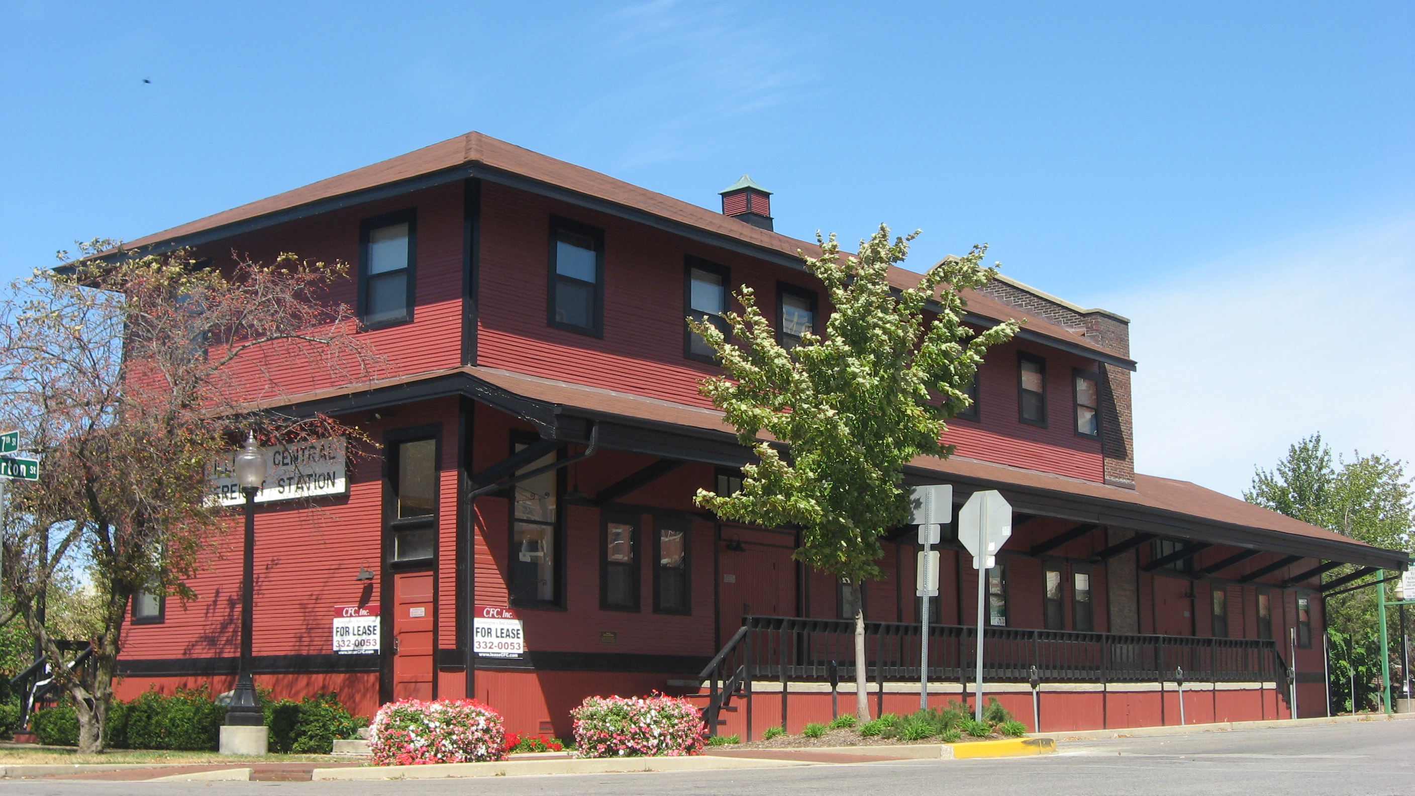 Front of the Illinois Central Railroad Freight Depot, located at 301 N. Morton Street in Bloomington, Indiana, United States. Built in 1906, it is listed on the National Register of Historic Places, and it is part of the Register-listed Bloomington West Side Historic District.